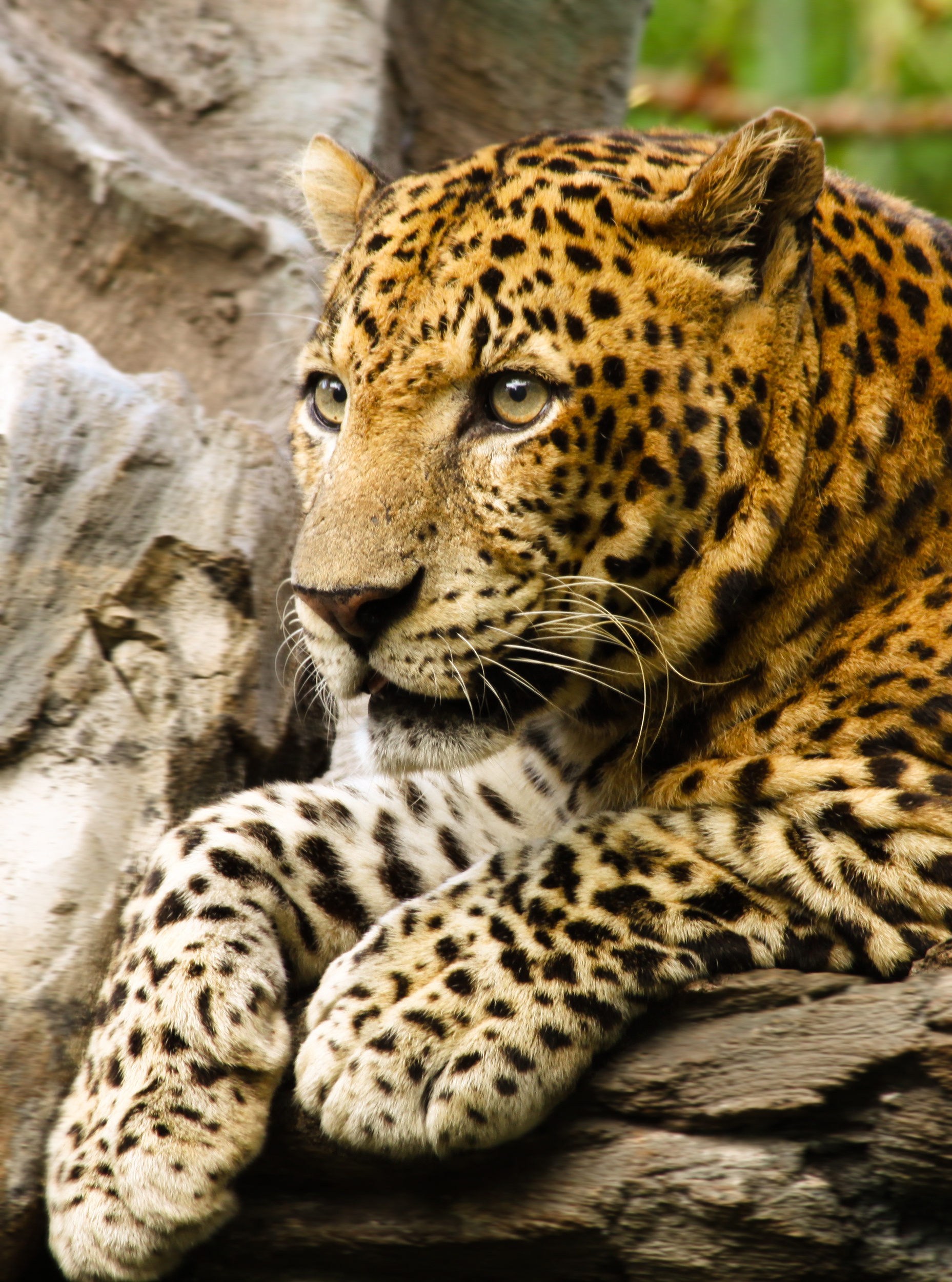 The leopard is the smallest of the four "big cats" in the genus Panthera. The image was taken in the Bali Safary Park, Bali (Sukawati, Indonesia).